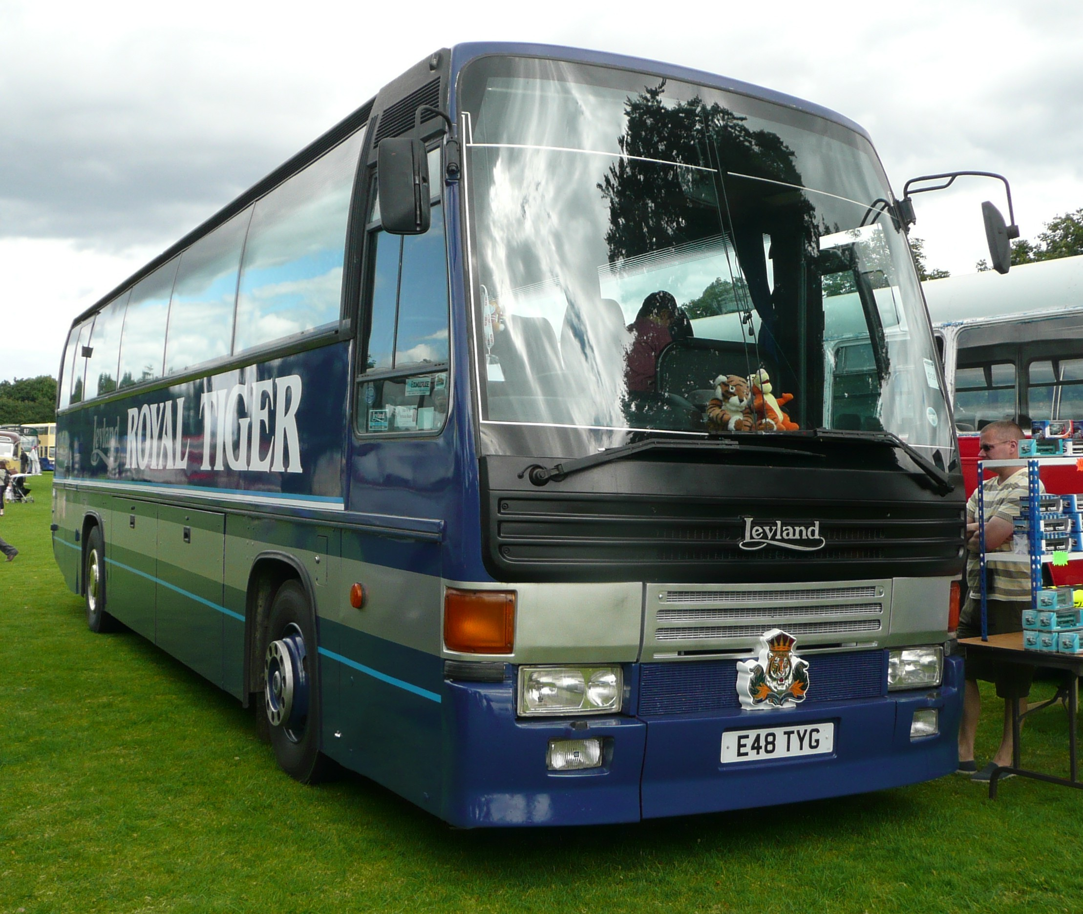 Preserved Leyland Motors E48 TYG, a demonstrator Leyland Royal Tiger, at the 2008 Alton bus rally at Anstey Park.